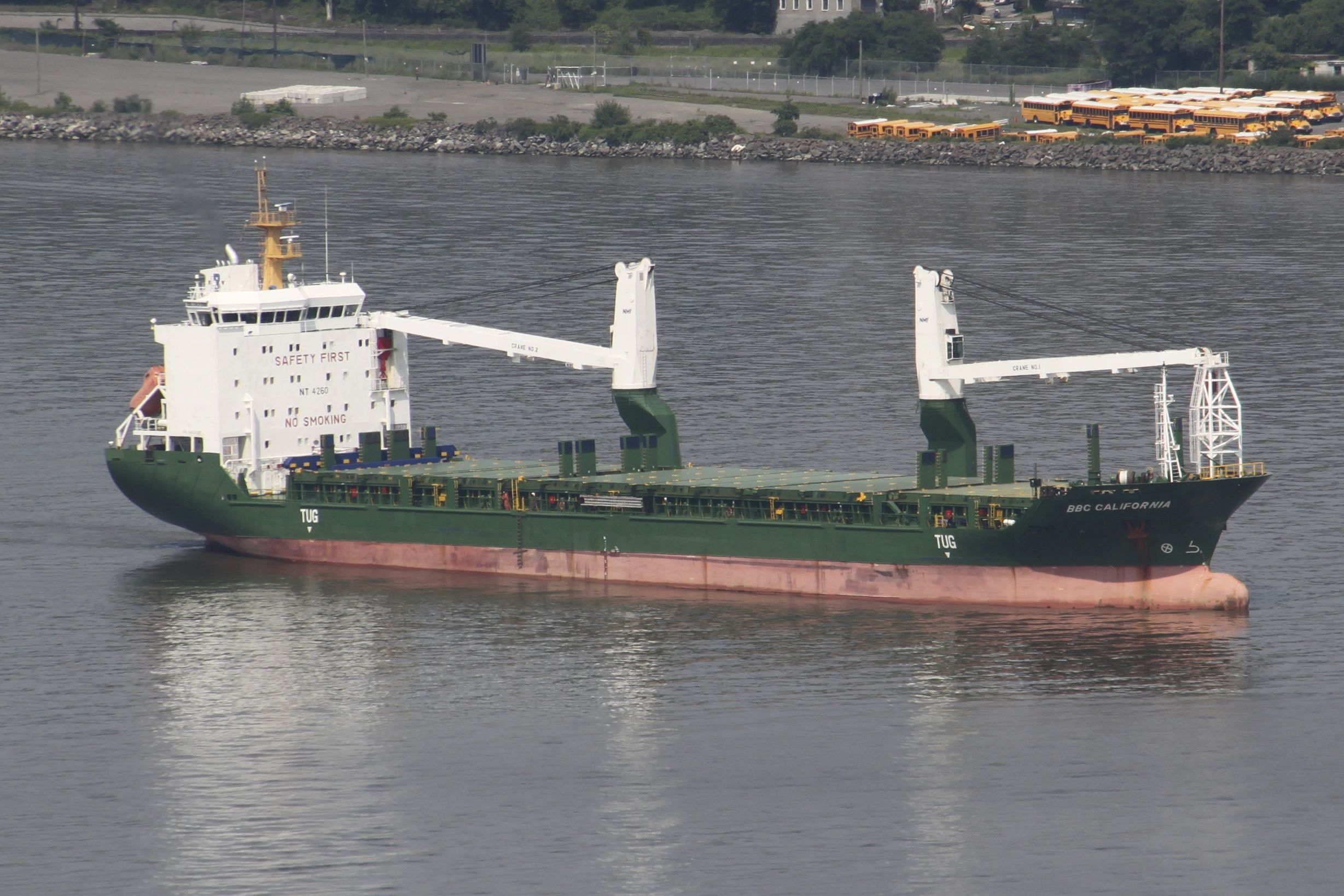 The BBC California on the Hudson River near Yonkers in July 2015.